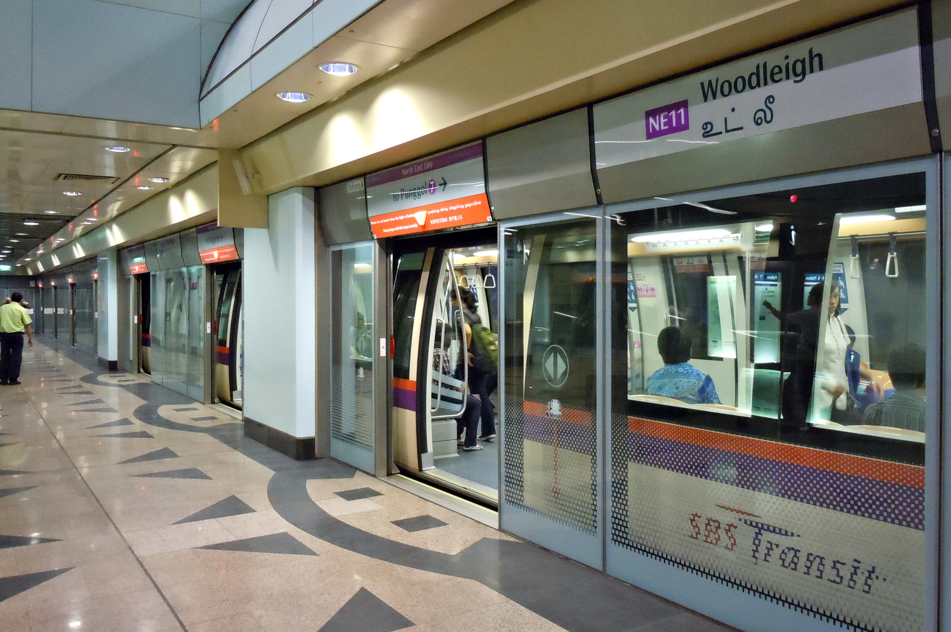 Platform of Woodleigh MRT station, a station of the North East MRT line in Singapore.